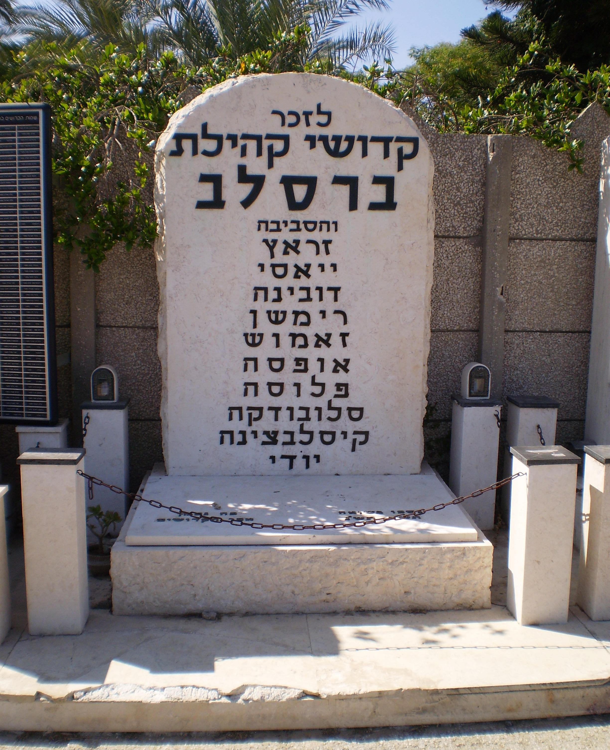 Bracław Jewery Holocaust memorial at Holon Cemetery